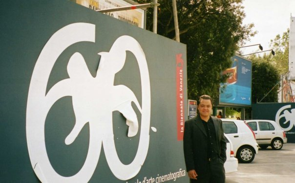 Filmmaker Miguel A. Reina photo in 60th Venice International Film Festival.